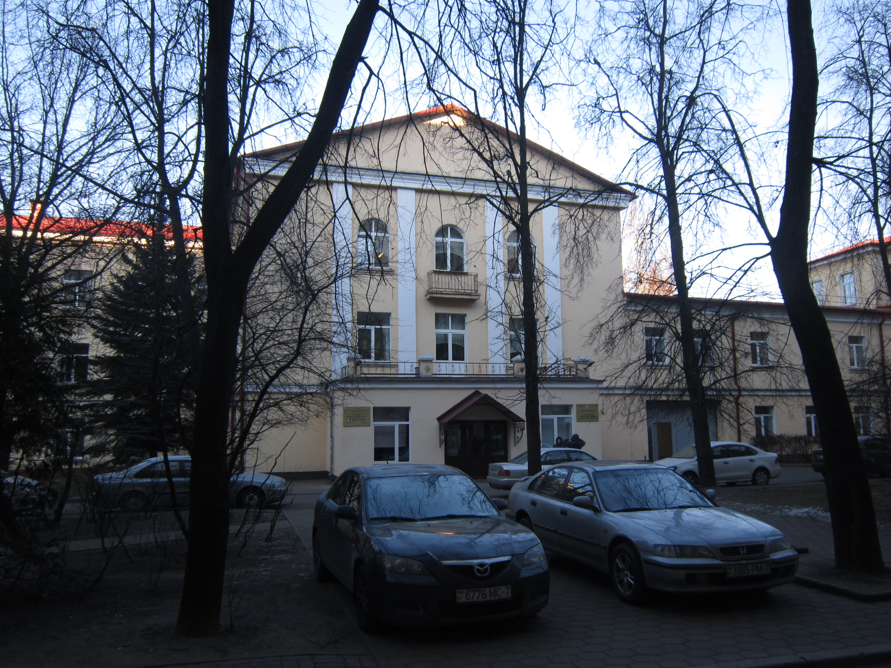 Minsk State Polytechnic College. Minsk, Niezaliežnasci avenue 85